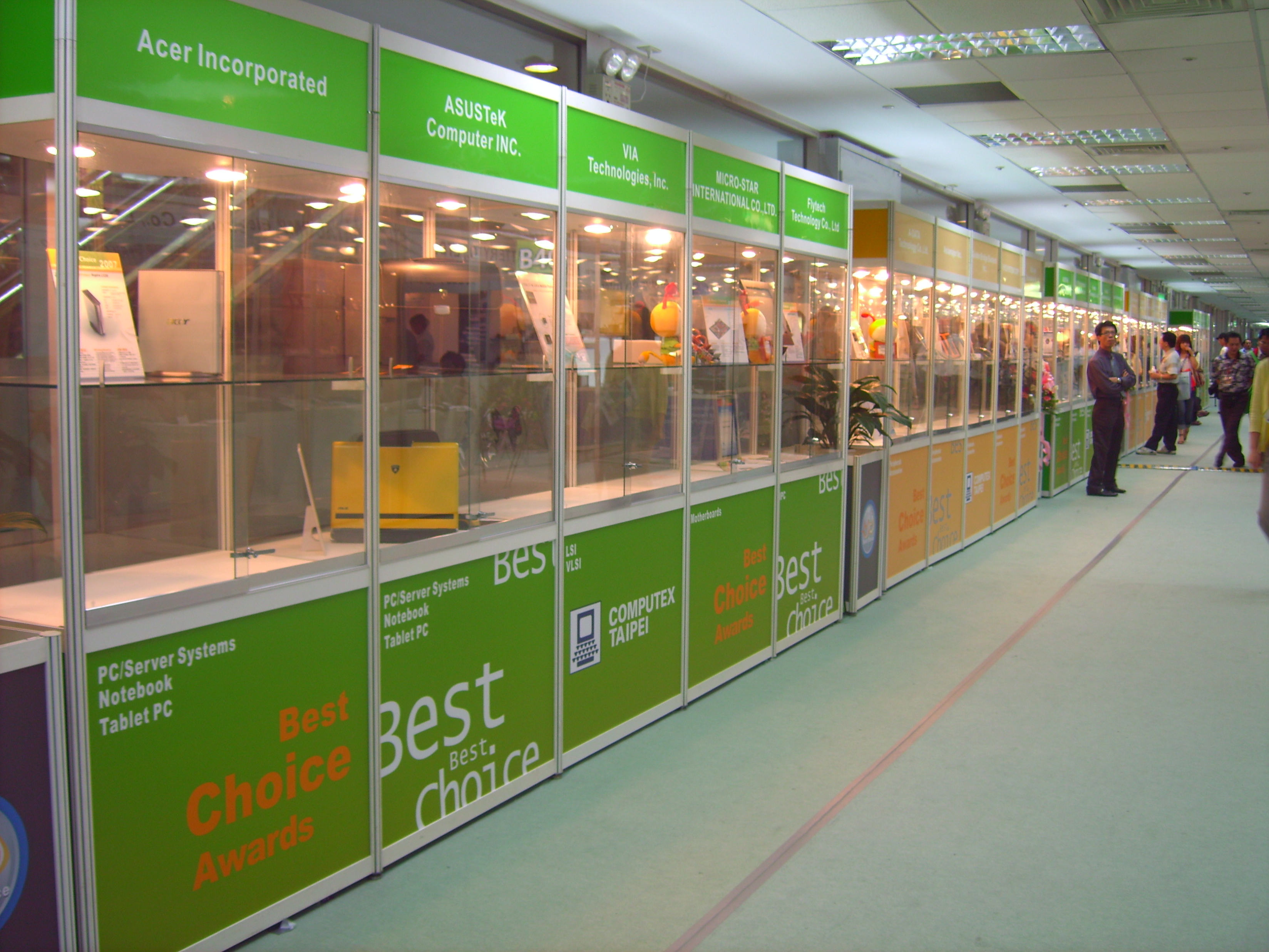 2007 COMPUTEX Taipei: Best Choice Gallery Corridor.